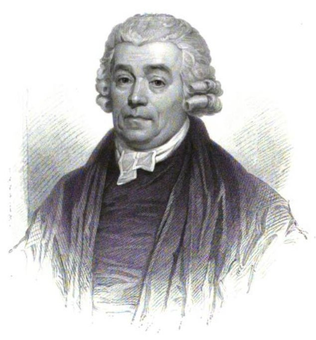 Thomas Wilson 1747 - 3 March 1813- note NOT the Thomas Wilson who was bishop of Sodor and Man.